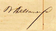 Signature of former president of Argentina, Nicolás Avellaneda.